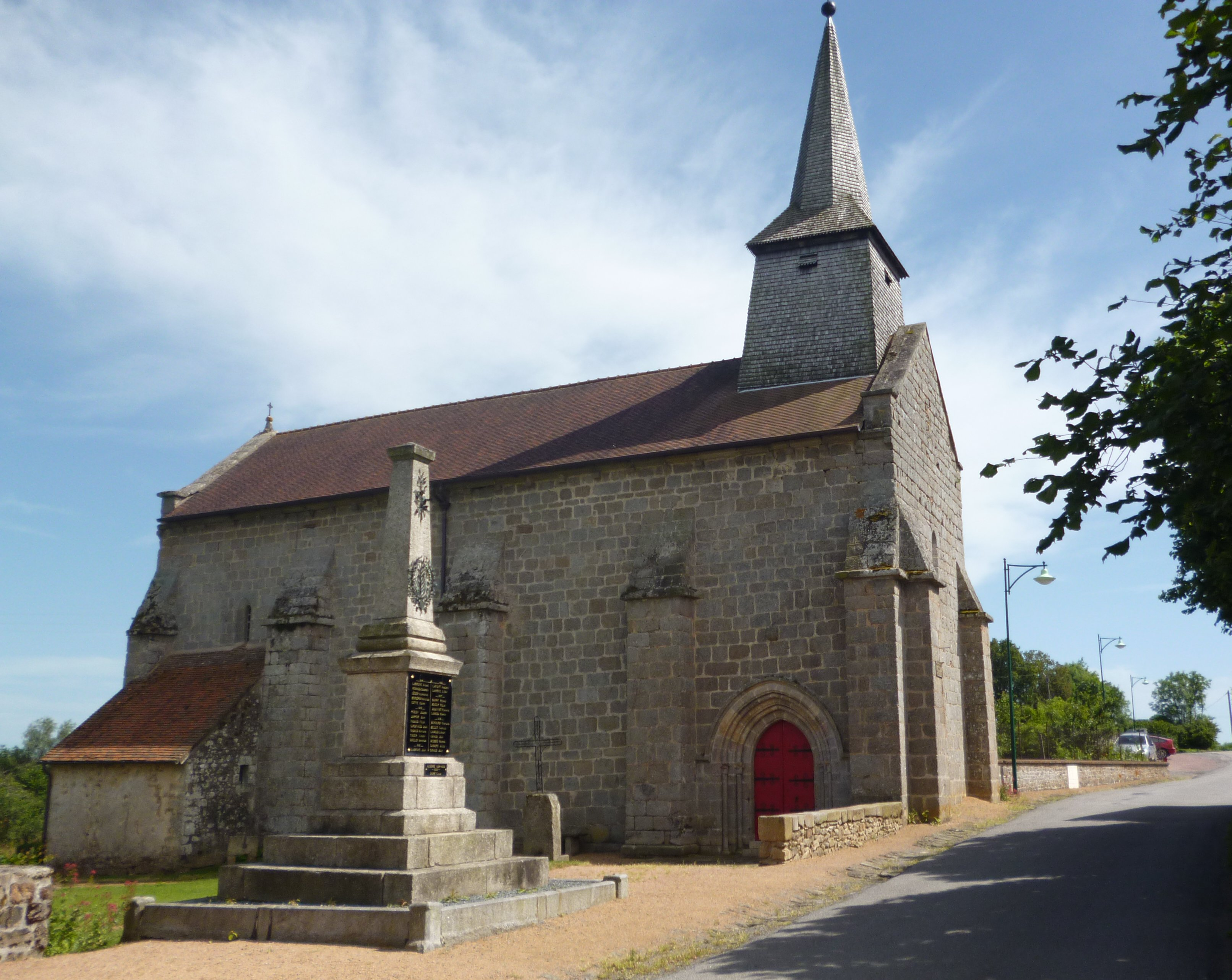 Blaudeix's church.